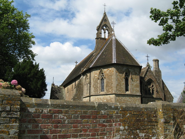 Catholic church of St Anthonys and St George